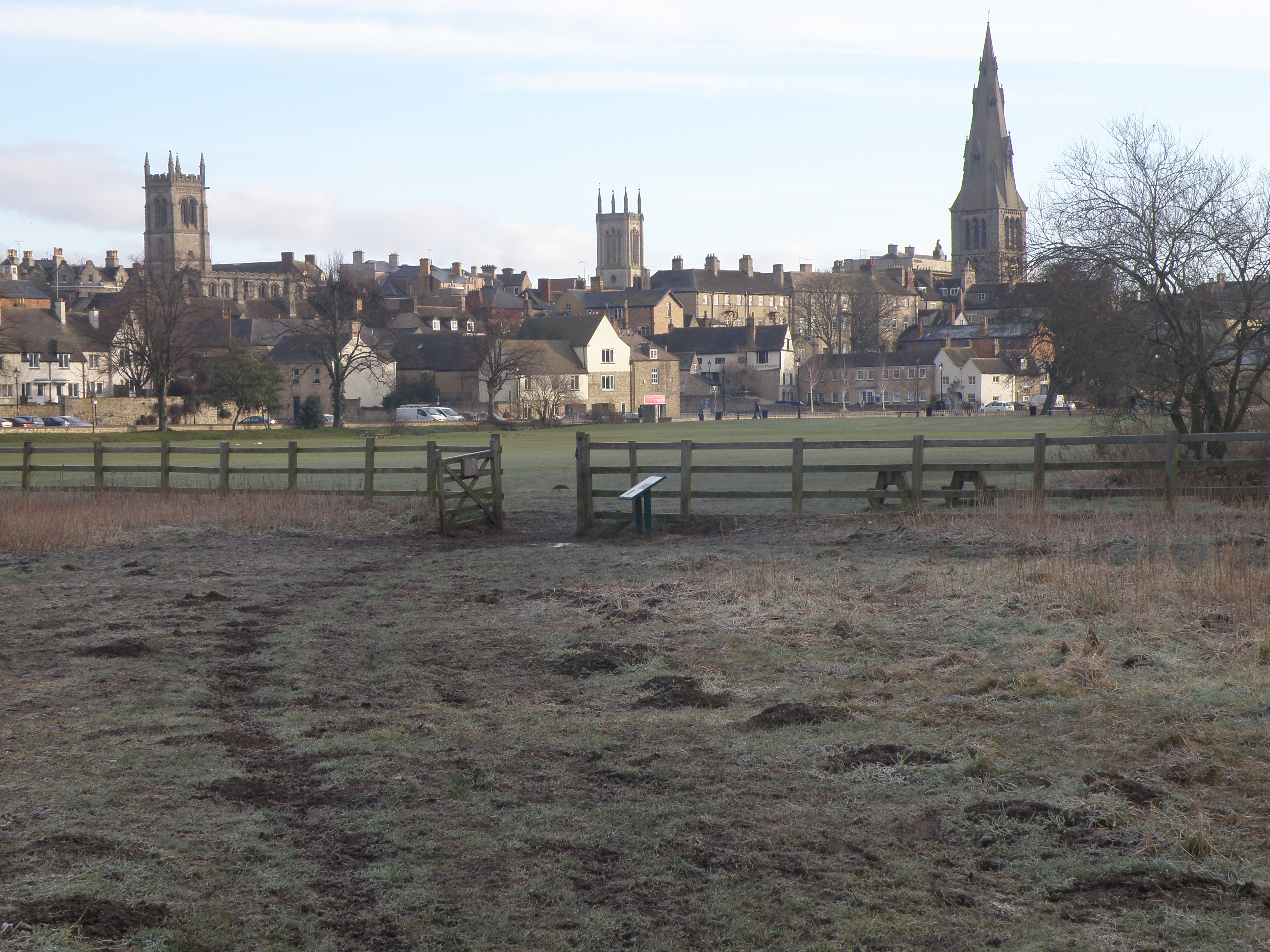 Stamford town scape — Lincolnshire, northeast England. A view looking towards Stamford whilst standing in Freemen's meadow an area of unimproved grassland. Popular with walkers and dogs, indeed the long distance footpaths, the Macmillan Way and the Jurassic Way both pass through the wooden gate. *The Macmillan Way heads on towards Boston — whereas this is the start/finish trailhead of the Jurassic Way long distance pathway, that heads to/arrives from the Banbury trailhead here.